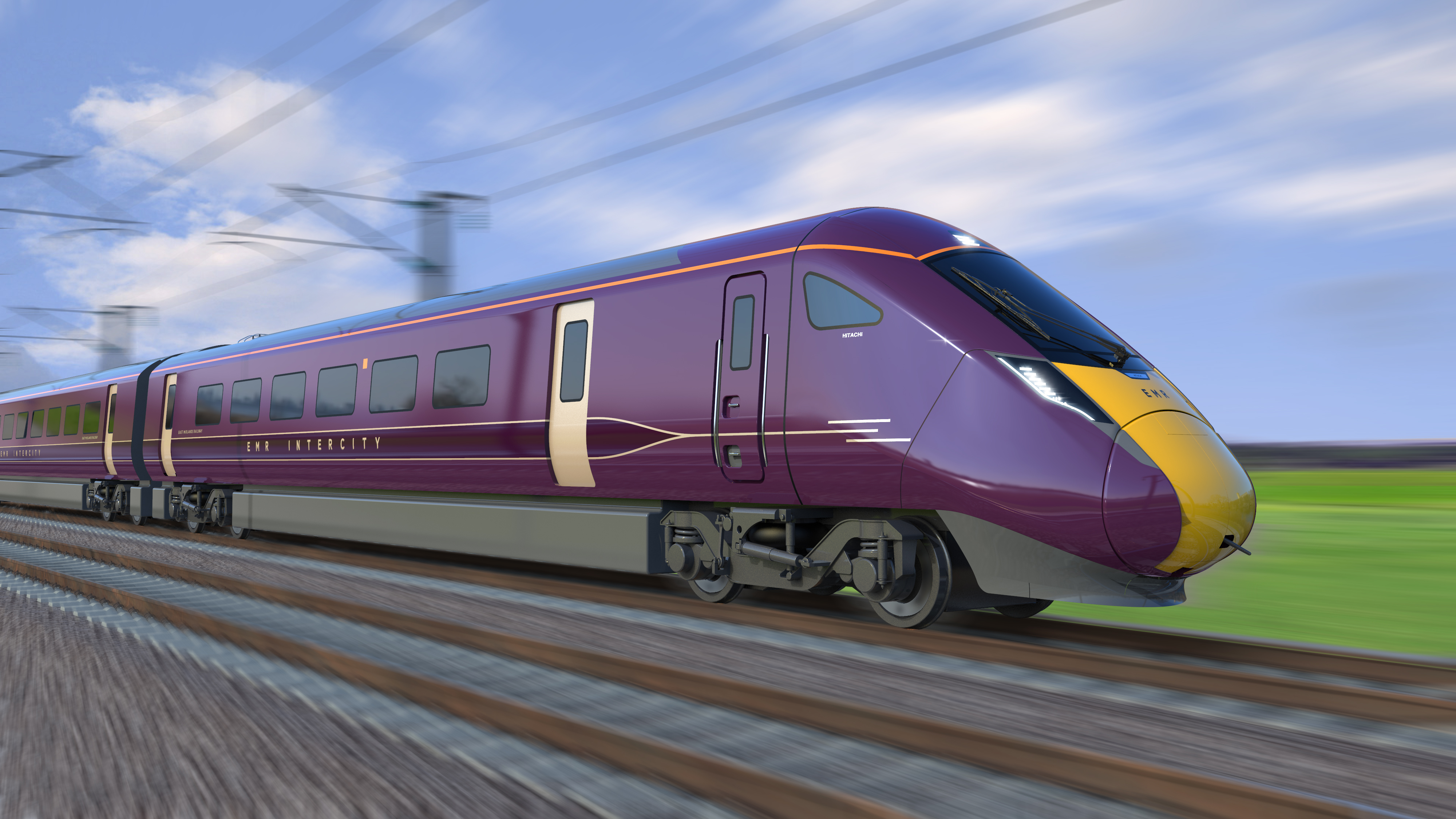 Hitachi train for East Midlands Railway